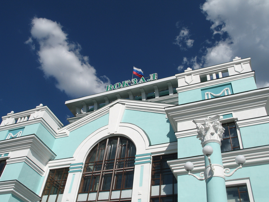 Omsk railway station